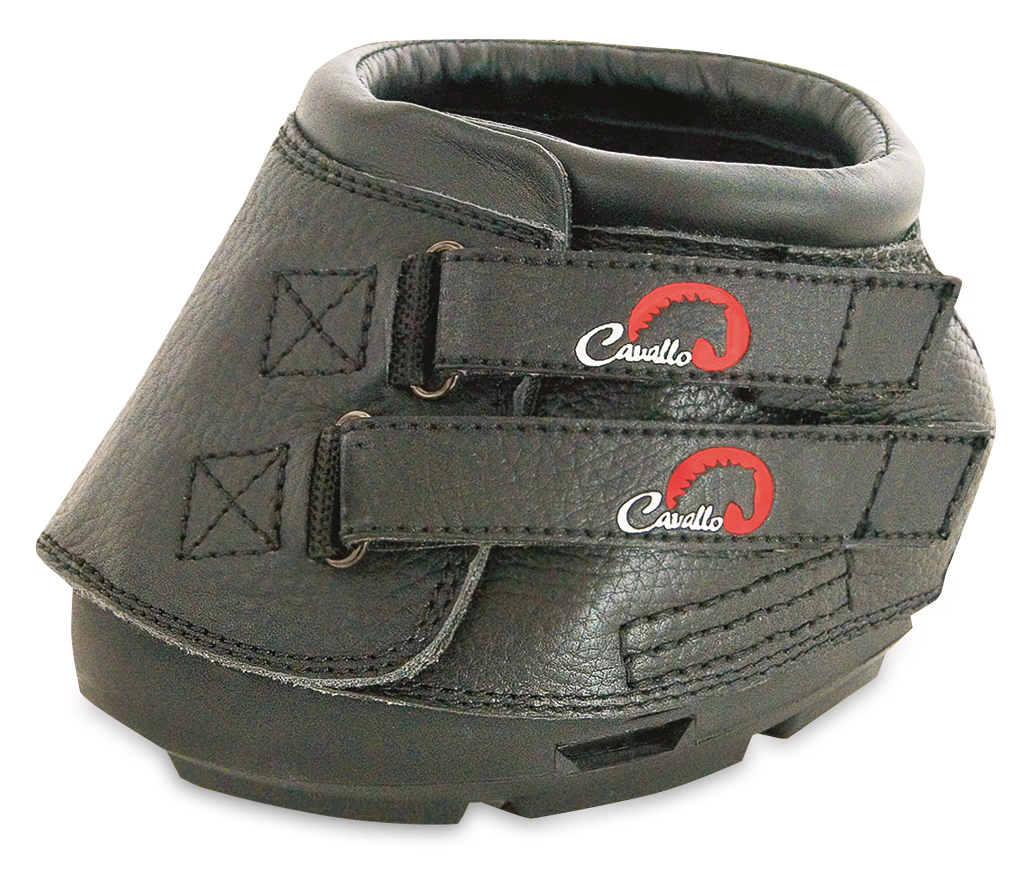 The Cavallo Simple Regular Sole Hoof Boot is the Multi-Purpose Hoof Boot, excellent for protecting your horse’s hooves on hard, rough terrain. The ultimate protection for the barefoot horse. Great for comfort for chronic pain or hoof sensitivity; rehabilitation from injuries, abscesses, navicular disease, laminitis / founder, punctures, sole bruising and contracted heels. Can be used for protection during trailering and breeding or taken on the trail as a “spare tire” for lost shoes. The Regular sole accommodates a hoof that is as wide as it is long